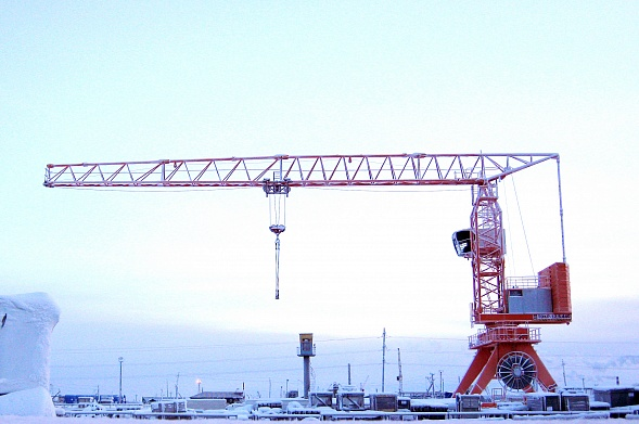 TDKP-12,5.440